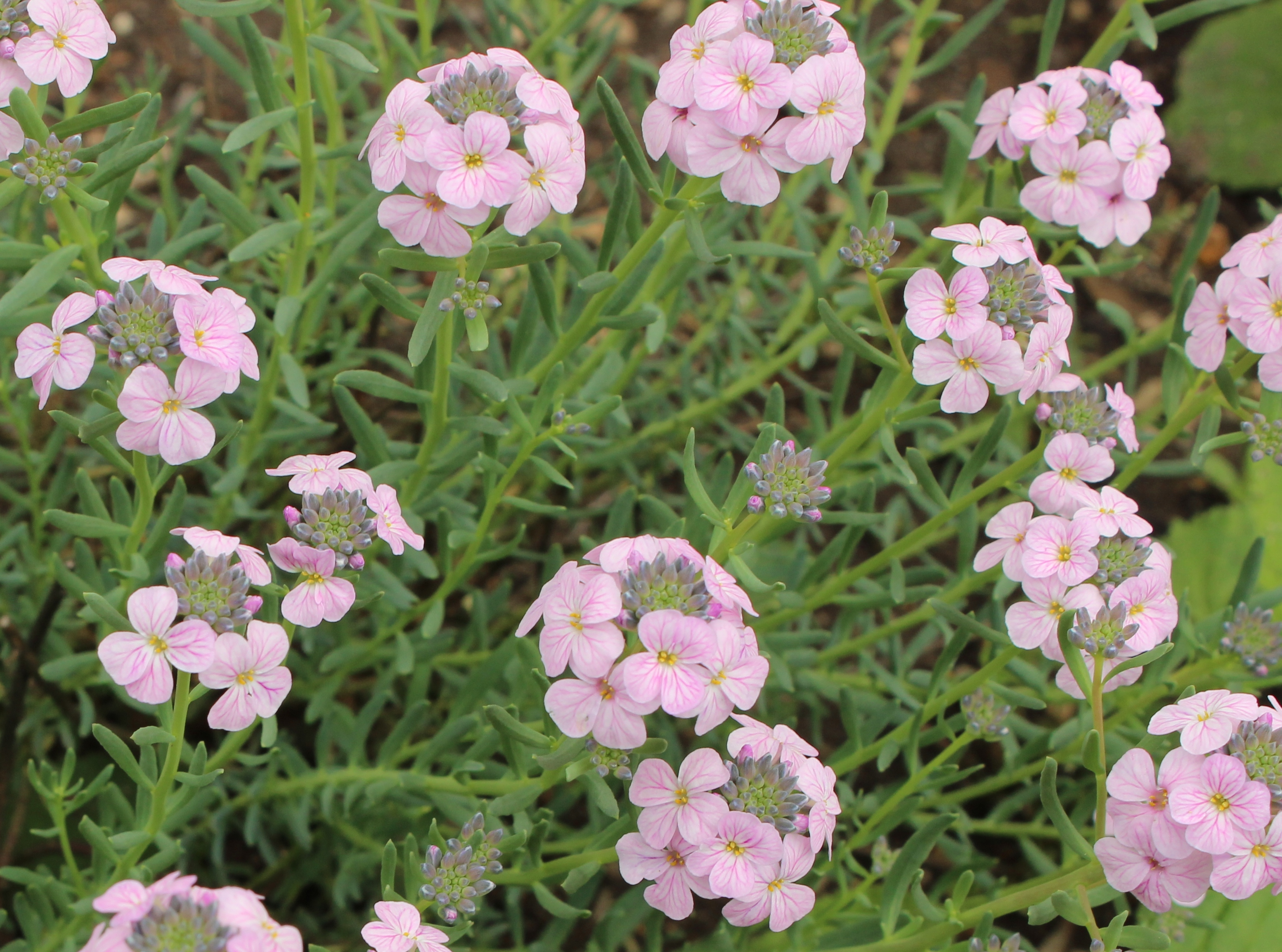 Aethionema armenum in the Botanical Garden of the University of Vienna.